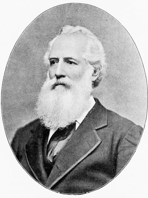 Photographic portrait of American editor and writer Francis H. Underwood (1825-1894). From My Own Story: With Recollections of Noted Persons by John Townsend Trowbridge (1827-1916). Boston: Houghton, Mifflin and Company, 1903: p. 248. Cropped to remove caption with his name.